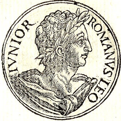 Romanos II was a Byzantine emperor. He succeeded his father Constantine VII in 959 at the age of twenty-one, and died suddenly in 963.